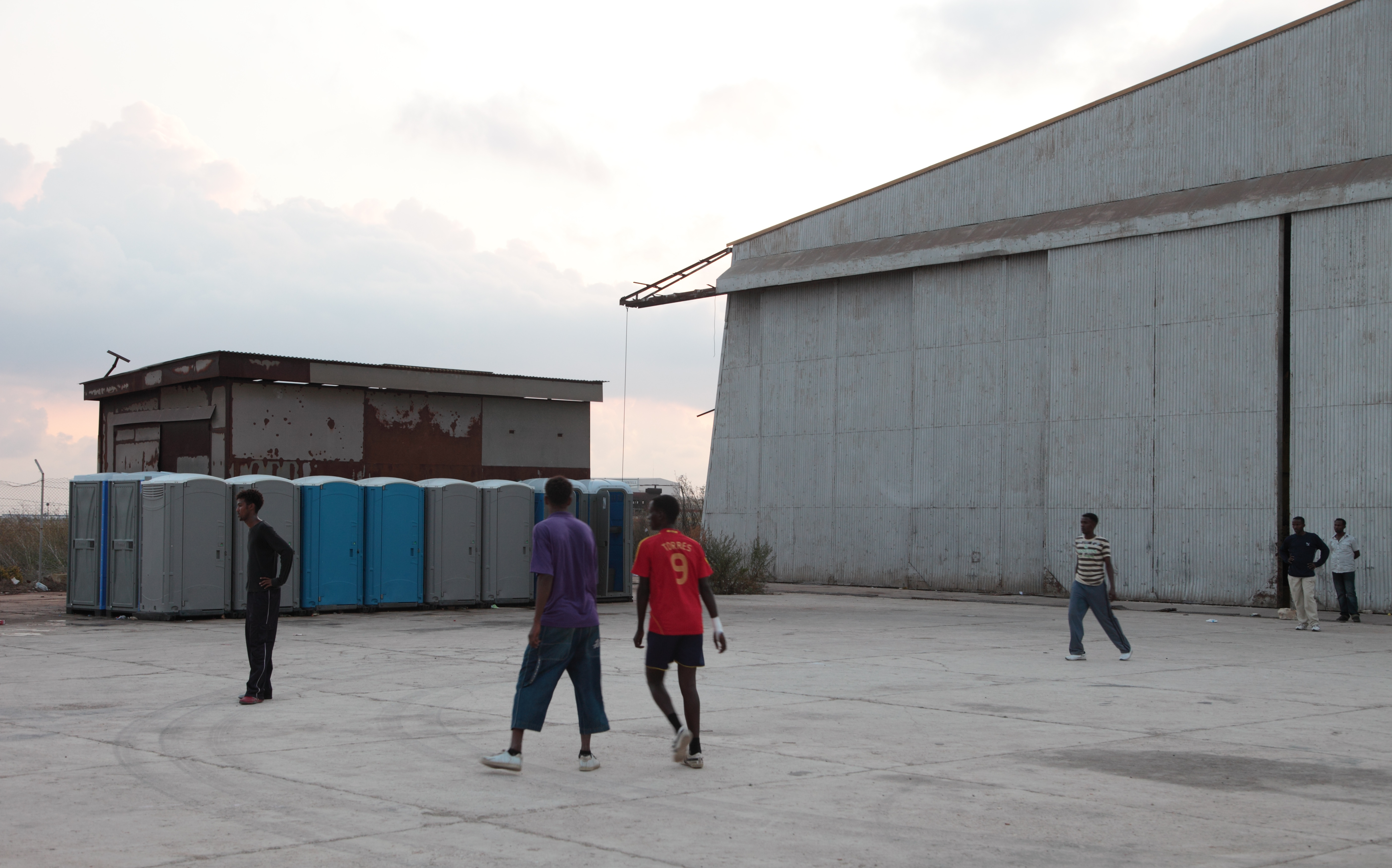 Malta, Hal Far: Former airplane hangar with toilets, open centre for refugees (mostly boatpeople from Africa)